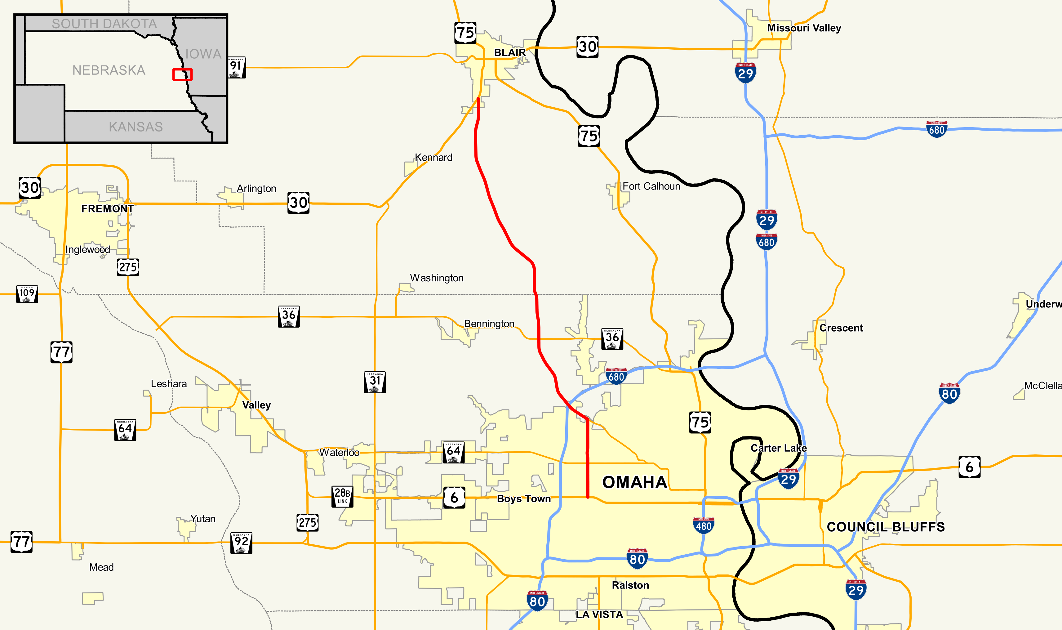 Map of Nebraska Highway 133 Data Sources: Nebraska Highways - - Dec 2016 Nebraska County Boundaries - - Dec 2016 Nebraska City Boundaries - - Dec 2016 This PNG graphic was created with QGIS